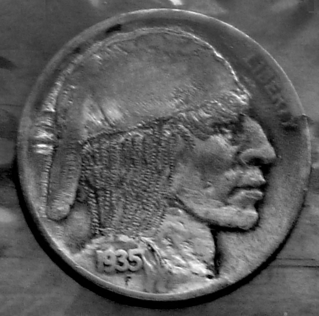 I collect Hobo nickels. Hobos in the early 20th century would make these and trade these for food, good, etc. You can find them all over. Most nickels you find have been made in the past 15 years. It's real hard to tell when one was made. This should cost $6 - $8 no more really.